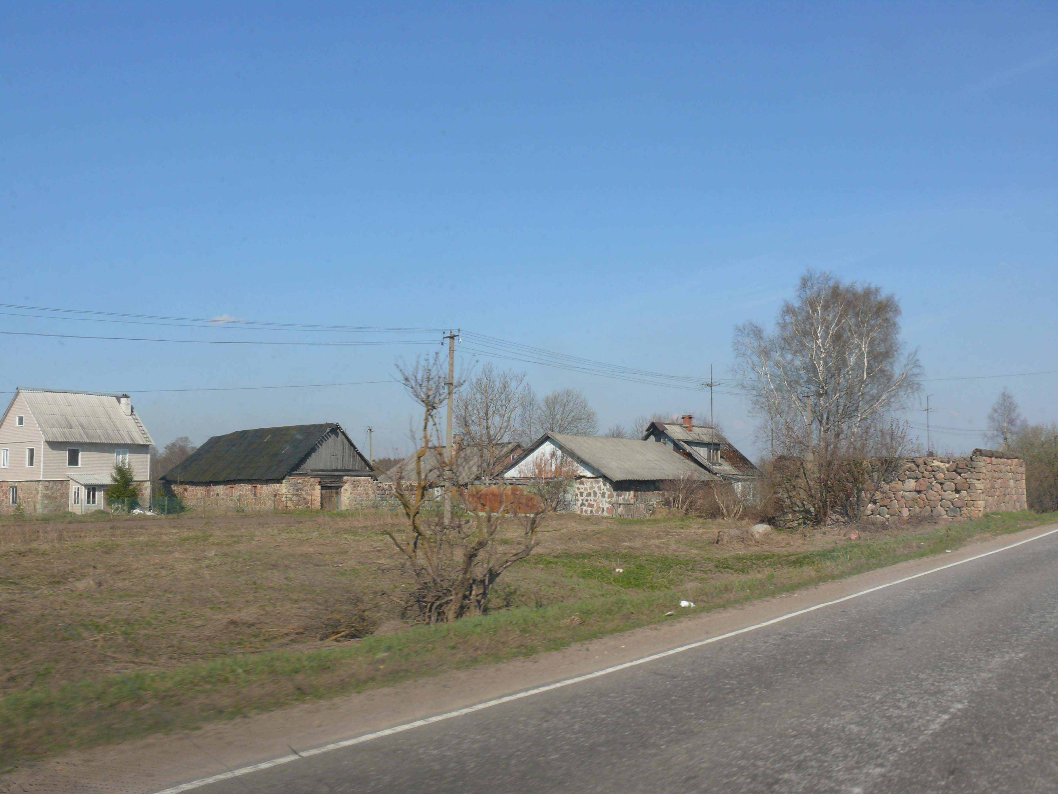 Kalozhitsy village. Volosovsky district, Leningrad oblast, Russia